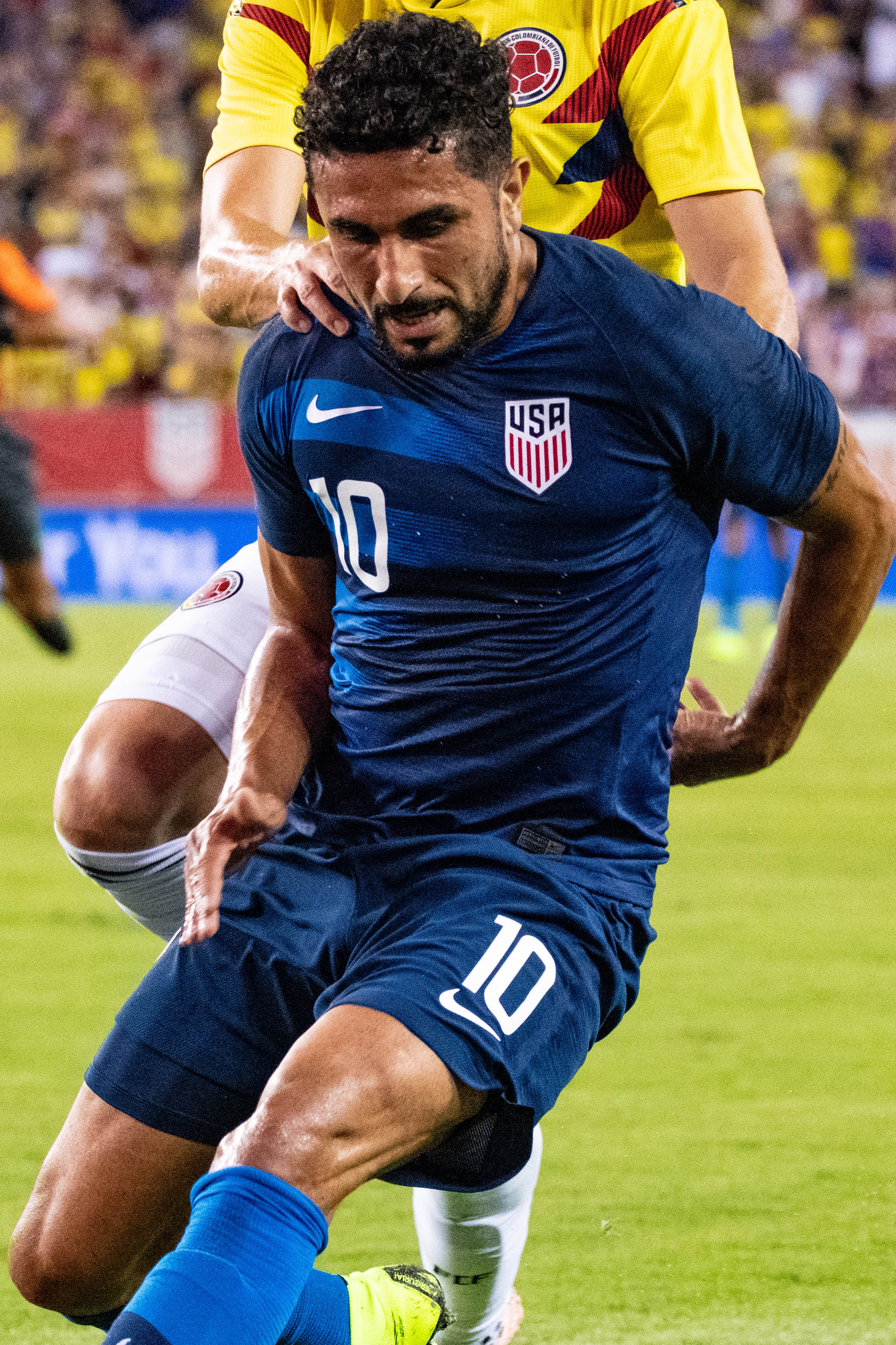 Matt Garrity Location : Raymond James Stadium, Tampa FL My contact : Instagram : djdouken Website